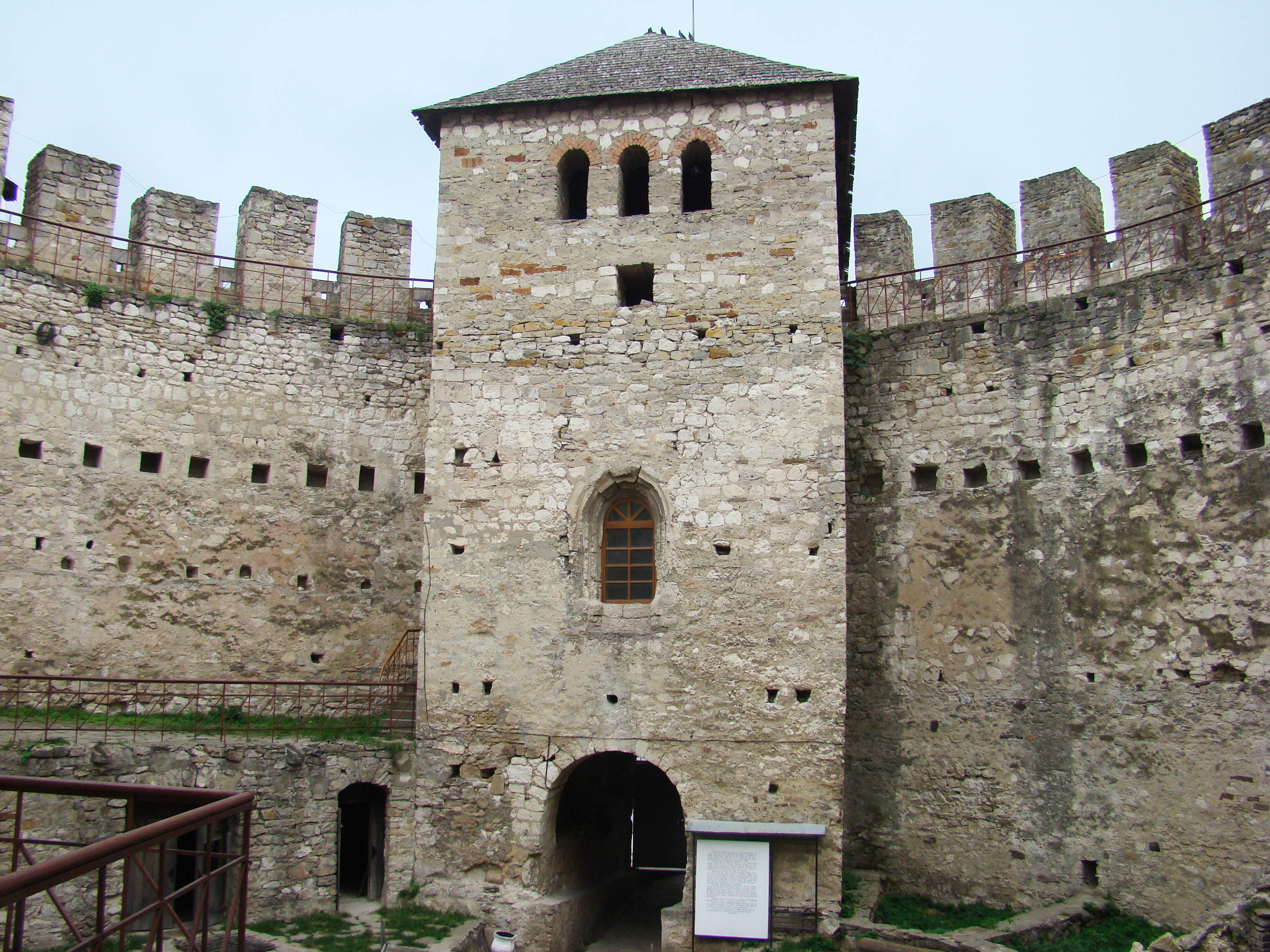 Soroca fortress. Gates tower.